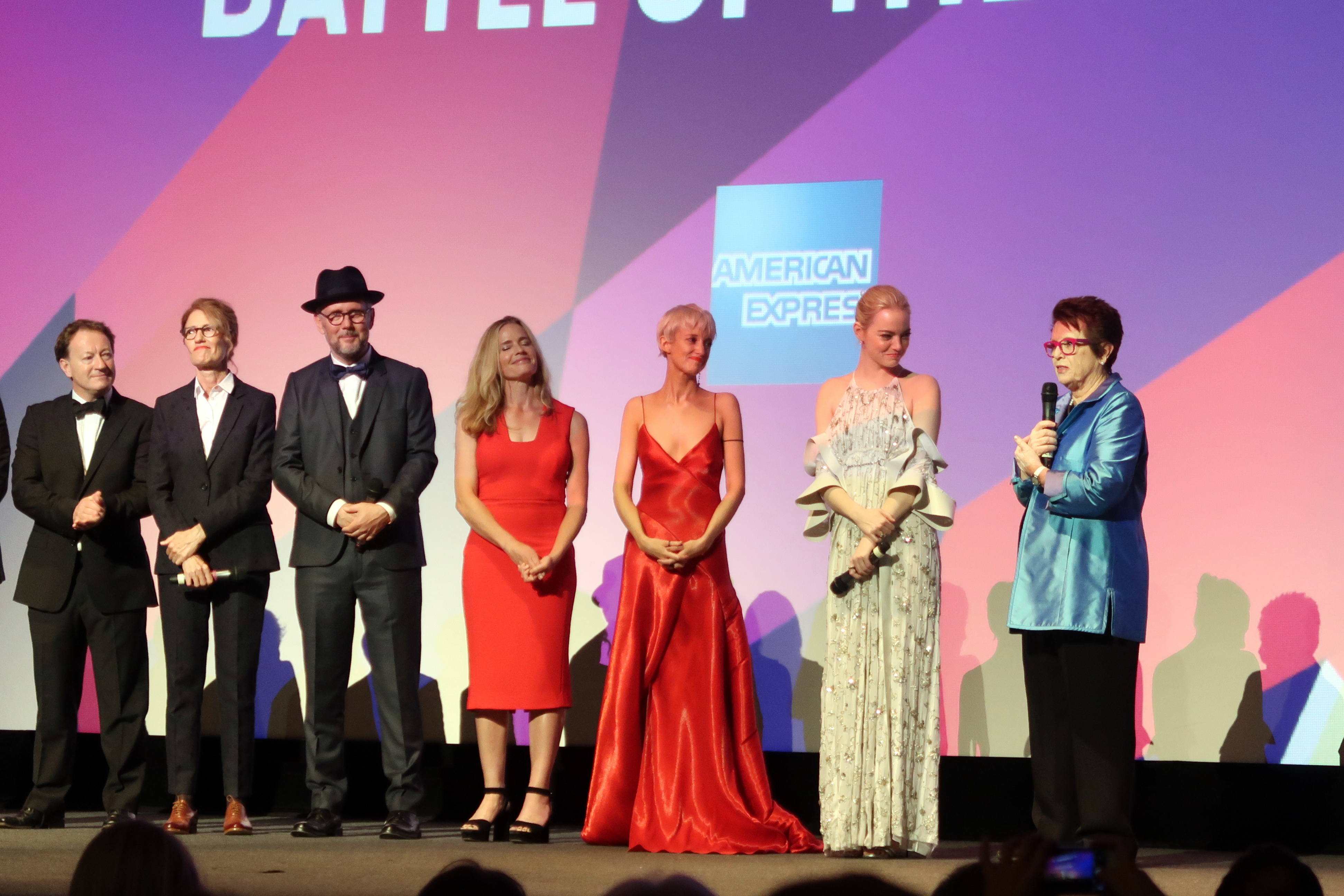 Simon Beaufoy, Valerie Faris, Jonathan Dayton, Elisabeth Shue, Andrea Riseborough, Emma Stone and Billie Jean King at Battle of the Sexes, London